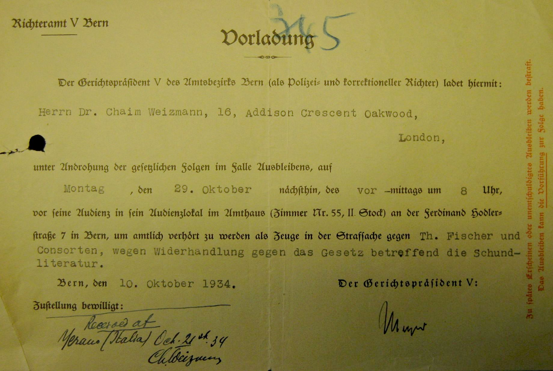 Citation of Dr. Chaim Weizmann as witness to the Berne Trial, with his signature